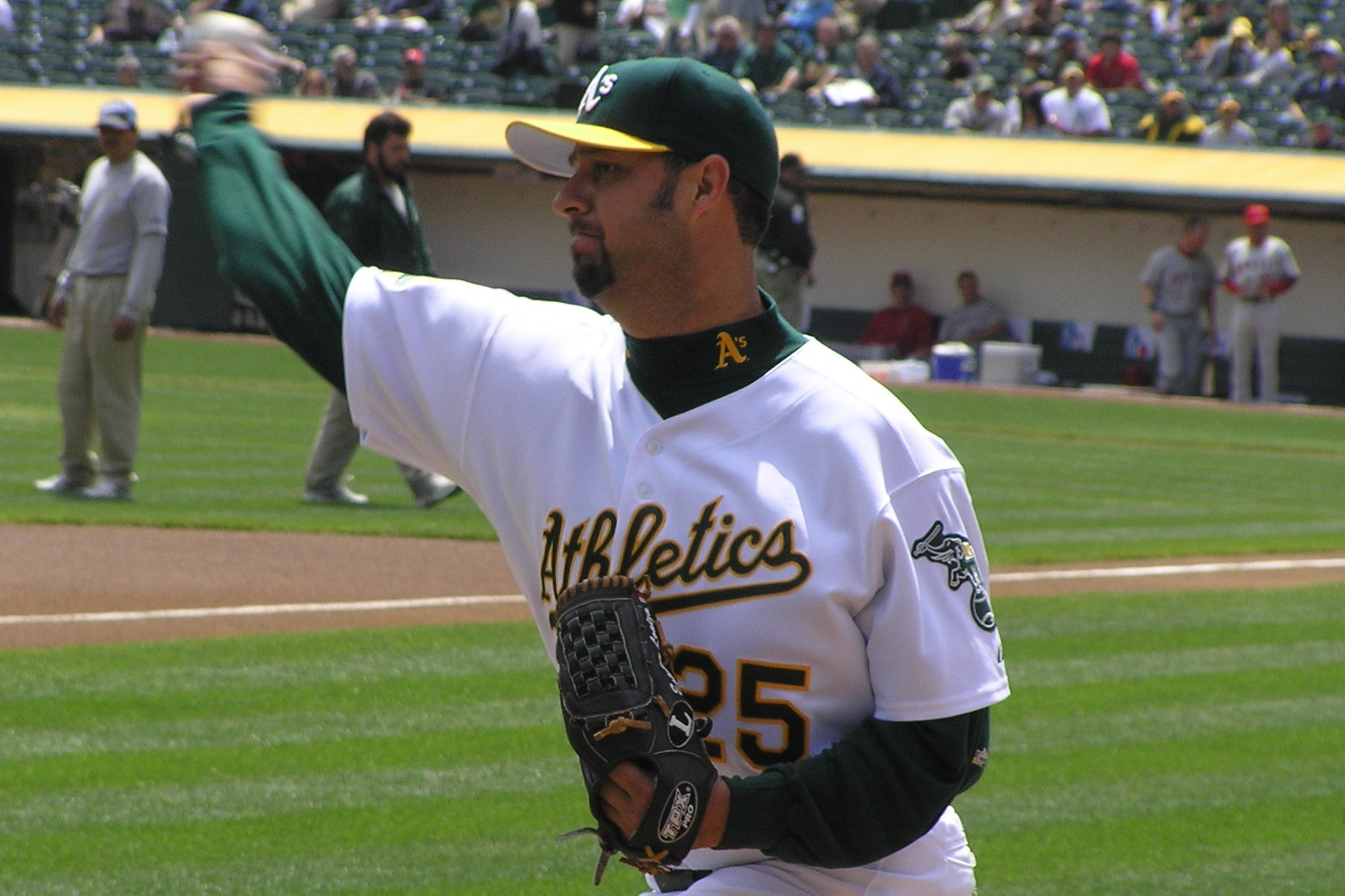 Photo by Justin Lafferty 00:02, 7 December 2006 . . Jlaff . . 1798×1198 (391,987 bytes)